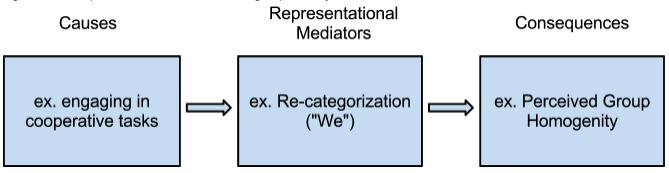 Diagram of common ingroup identity model